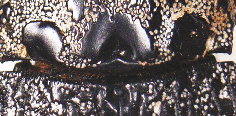 Detail of pronotum of Capnodis cariosa